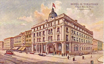 Postcard: "M. Tokatlian Hotel Pera Grand Street Constantinople [Istanbul]"